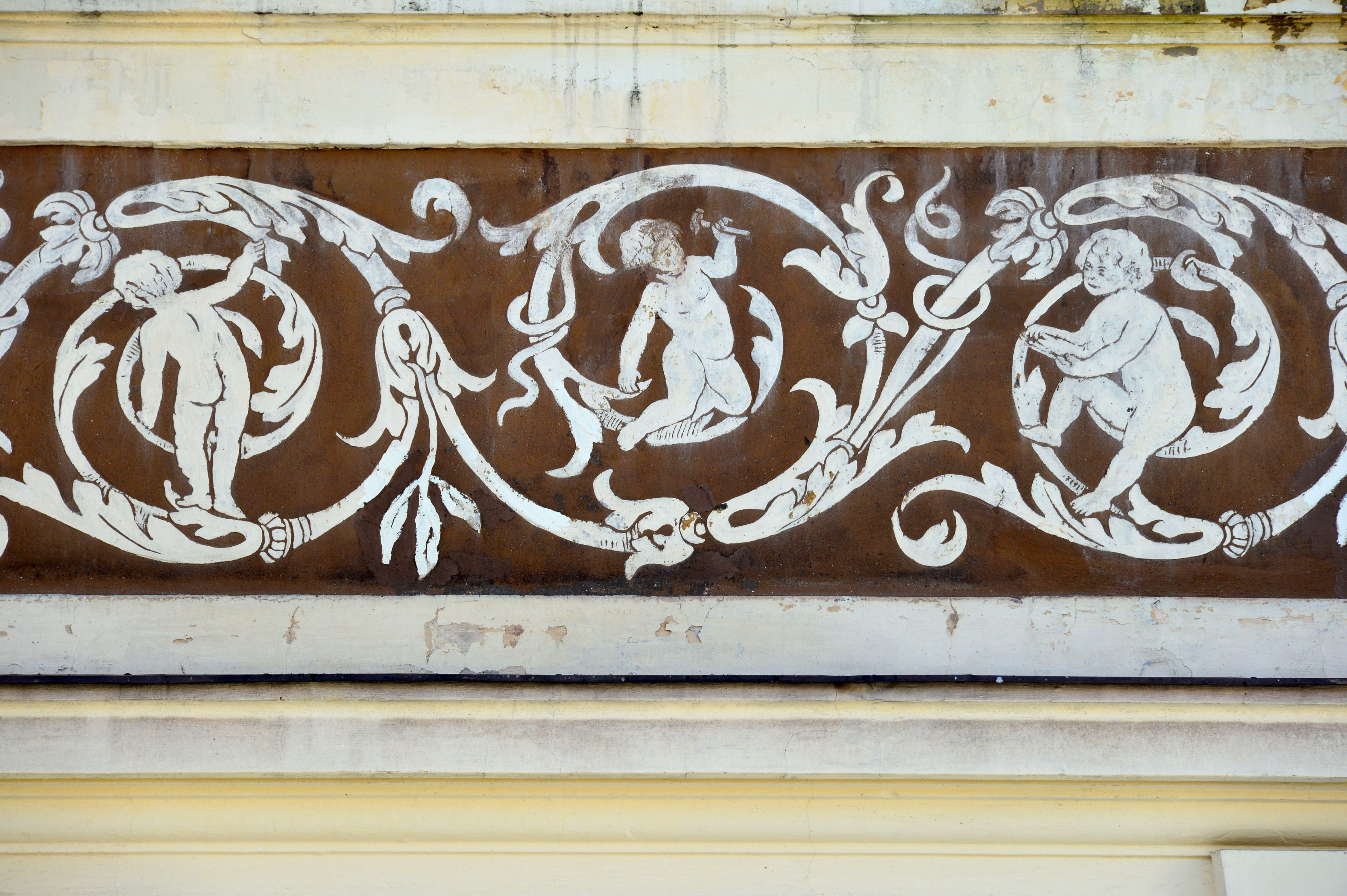 Cutout from a frieze at Villa Romanini (architectural design by Josef Victor Fuchs, late Wilhelminian style, Woerthersee architecture, erected in 1894), Augustenstrasse #6, municipality Poertschach on the Lake Woerth, district Klagenfurt Land, Carinthia, Austria, EU